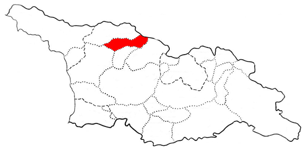 Location of KvemoSvaneti district in Georgia